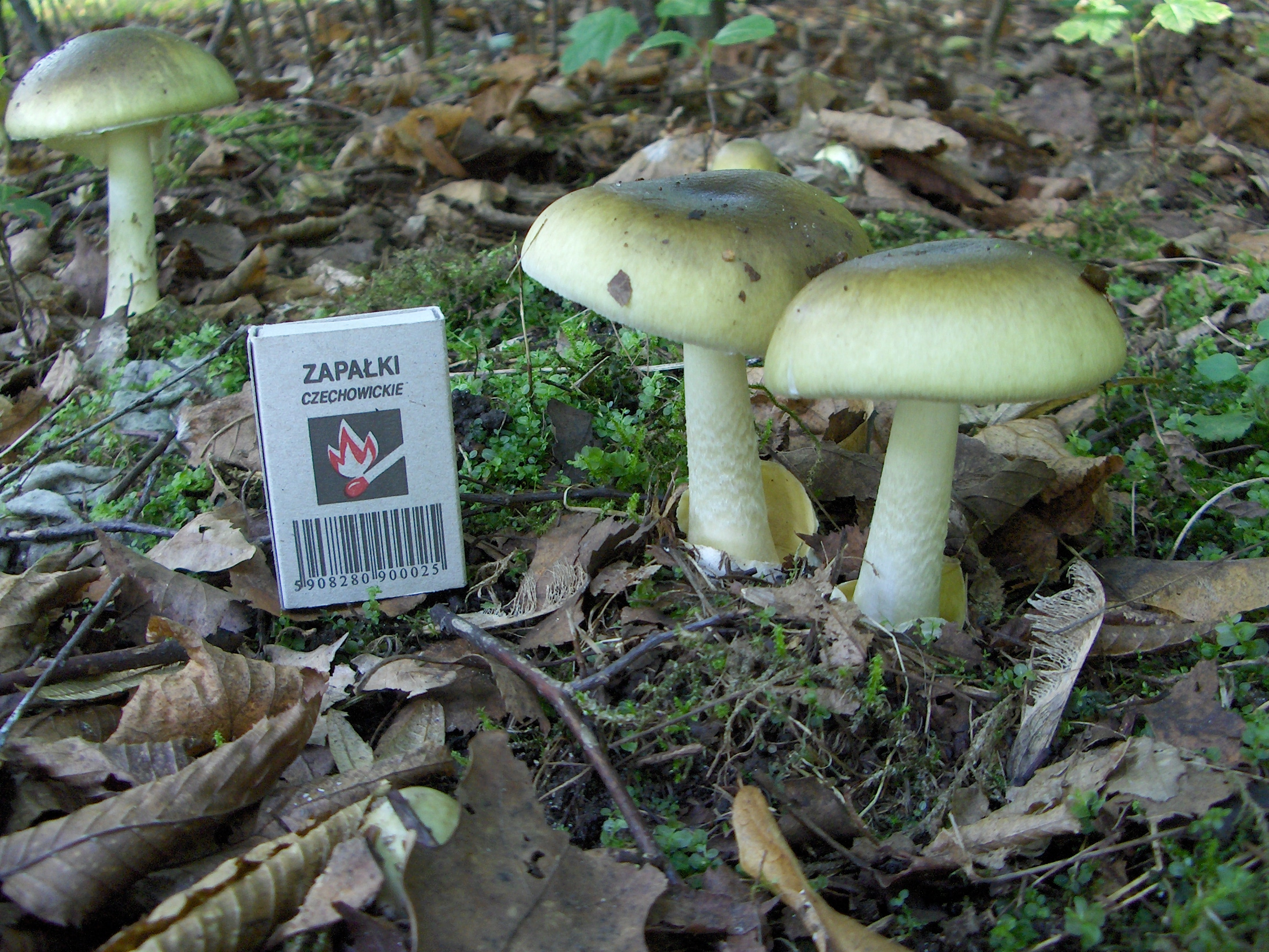 Death cap - two fungal fruiting bodies. Location: Europe, Poland, Mazovian Voivodship, Podkowa Leśna, broadleaf forest/garden. See also other pictures of the same subject.